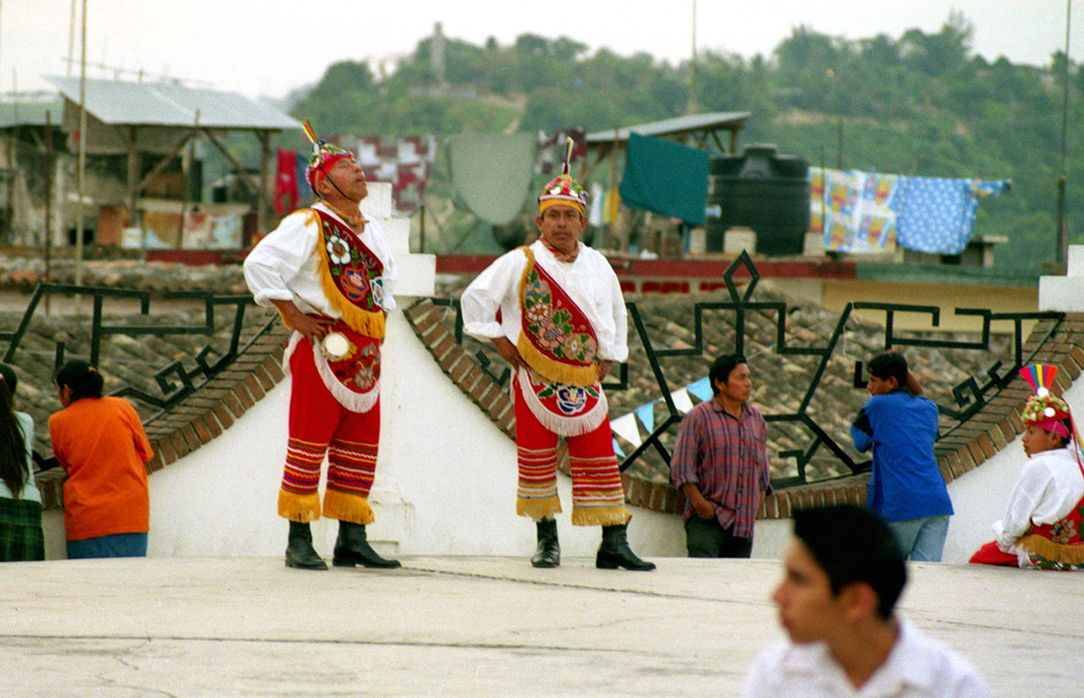 Voladore flyers after a performance in Papantla, Veracruz state, Mexico